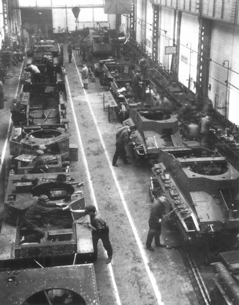 Inside view of the factory (Ateliers de construction d'Issy-les-Moulineaux) used for the production of AMC 35 ACG 1 tanks in 1935. From 1991 to 2002, Artsenal, artistes studios and show space, 247 quai de Stalingrad. The building was subsequently demolished.